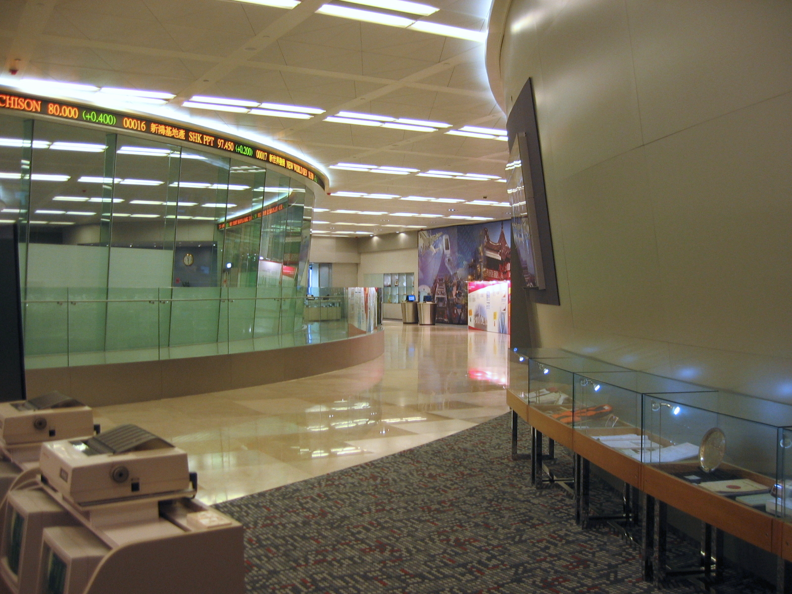 HKEX Exhibition Hall 香港交易所展覽館